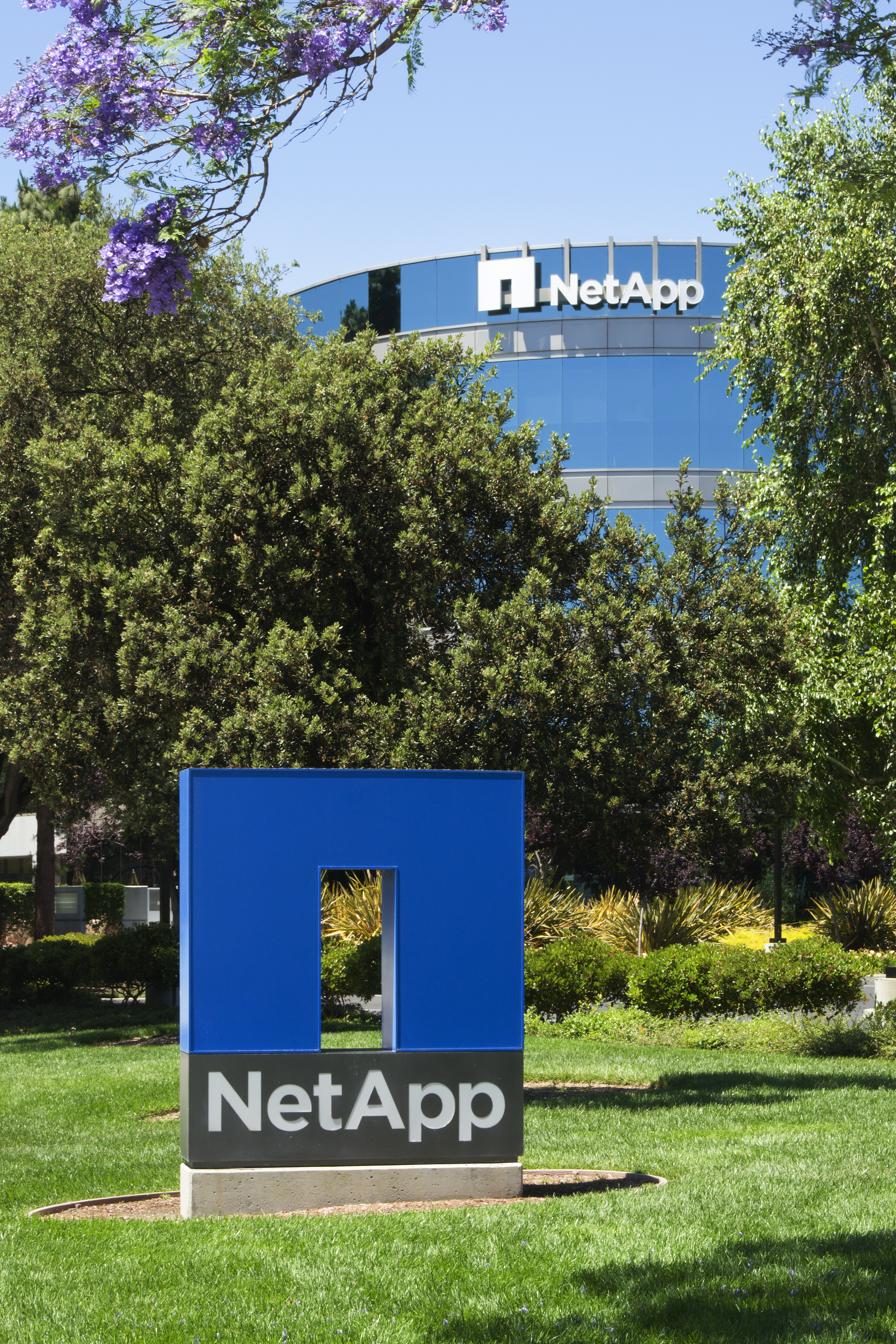 NetApp headquarters in Sunnyvale, California.